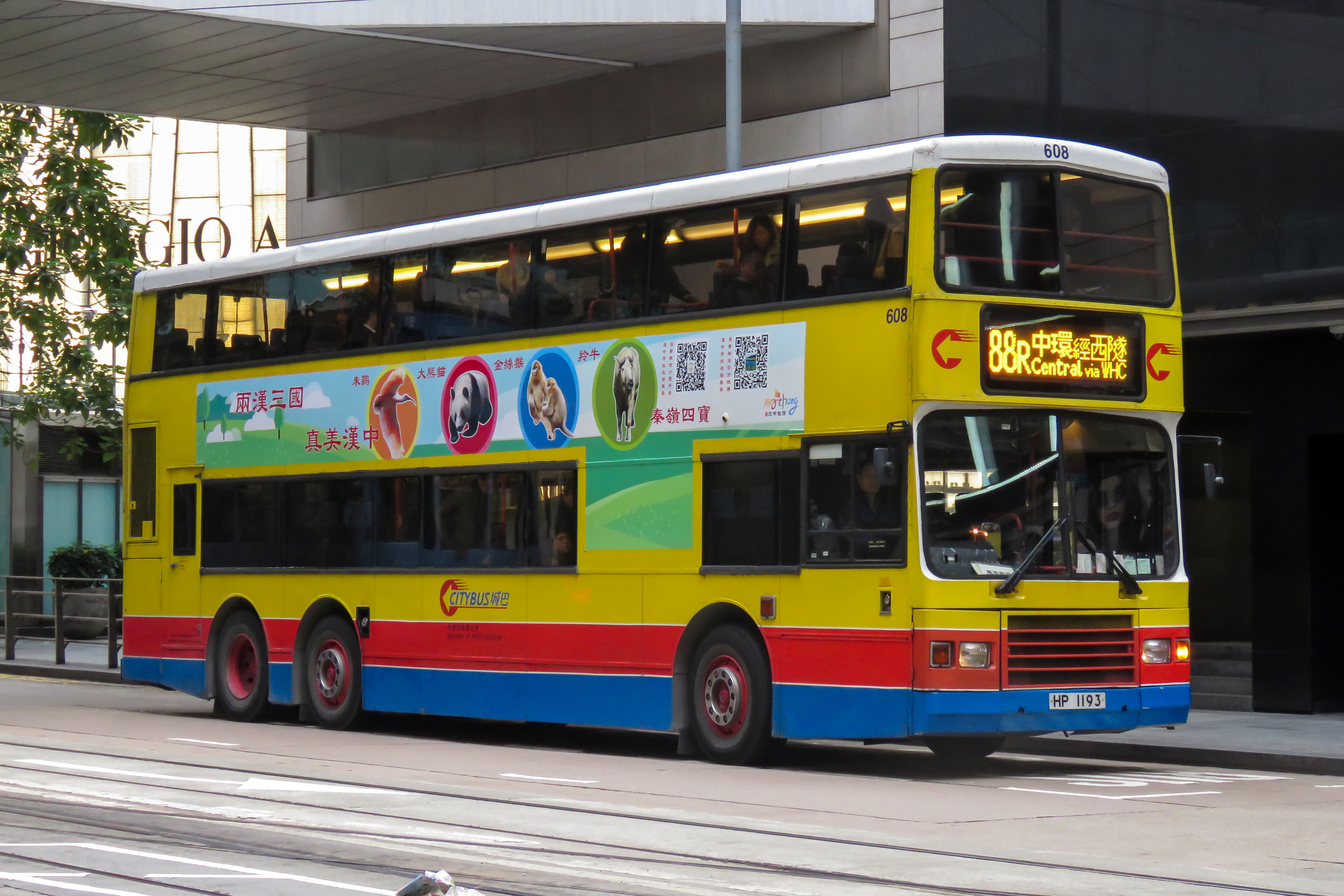 Special service via Route 8 and Western Harbour Crossing commenced on 23 June 2008, therefore this is the pioneer of the "five golden flowers" on the Tsing Sha Highway.